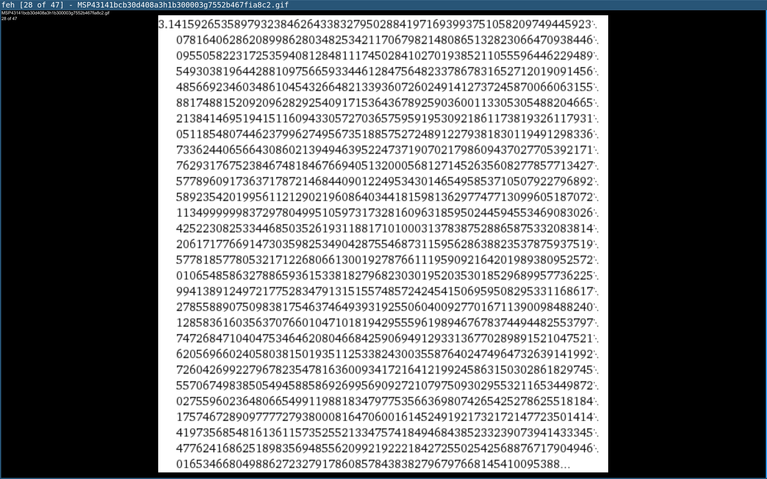 Screenshot of feh running under i3, displaying an image with an approximation of pi.